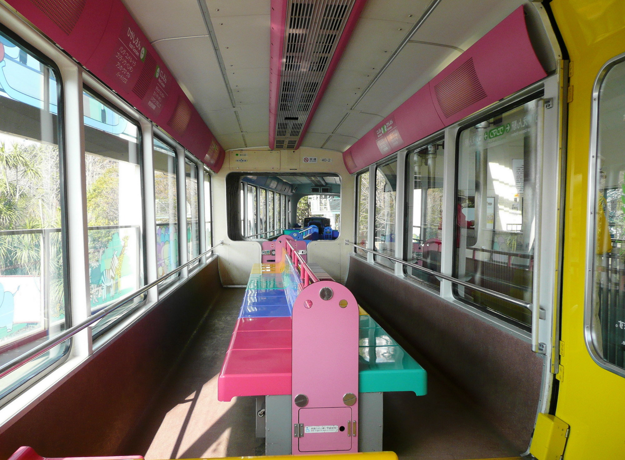 40 type inside,Ueno Zoo Monorail,Tokyo Metropolitan Bureau of Transportation.